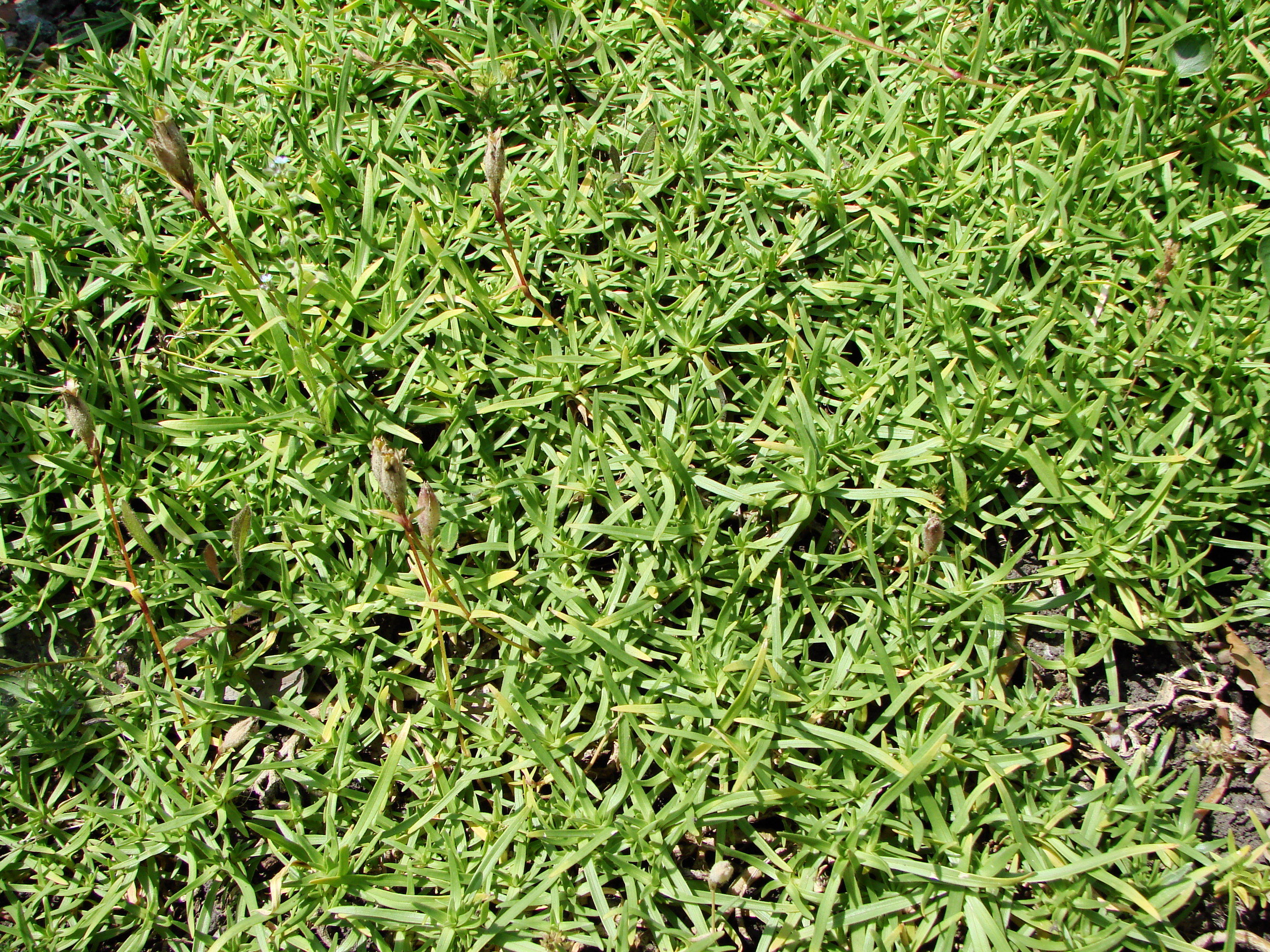 Picture taken in the university botanical garden of Wrocław (Poland): Saponaria caespitosa DC.